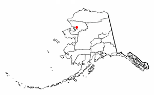 Adapted from Wikipedia's AK borough maps by Seth Ilys.